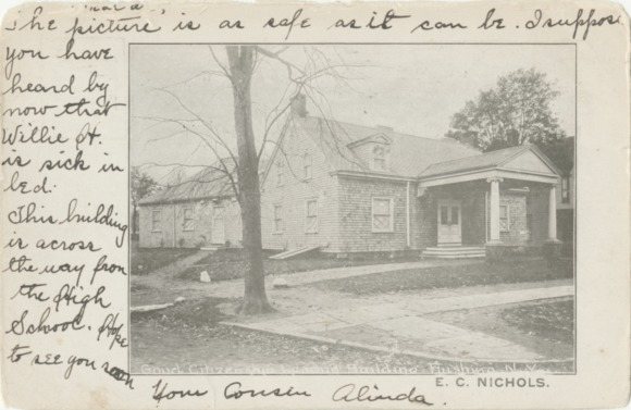 Black and white postcard depicting the Good Citizenship League building in Flushing, New York (3 5/8 x 5 5/8 inch sized)